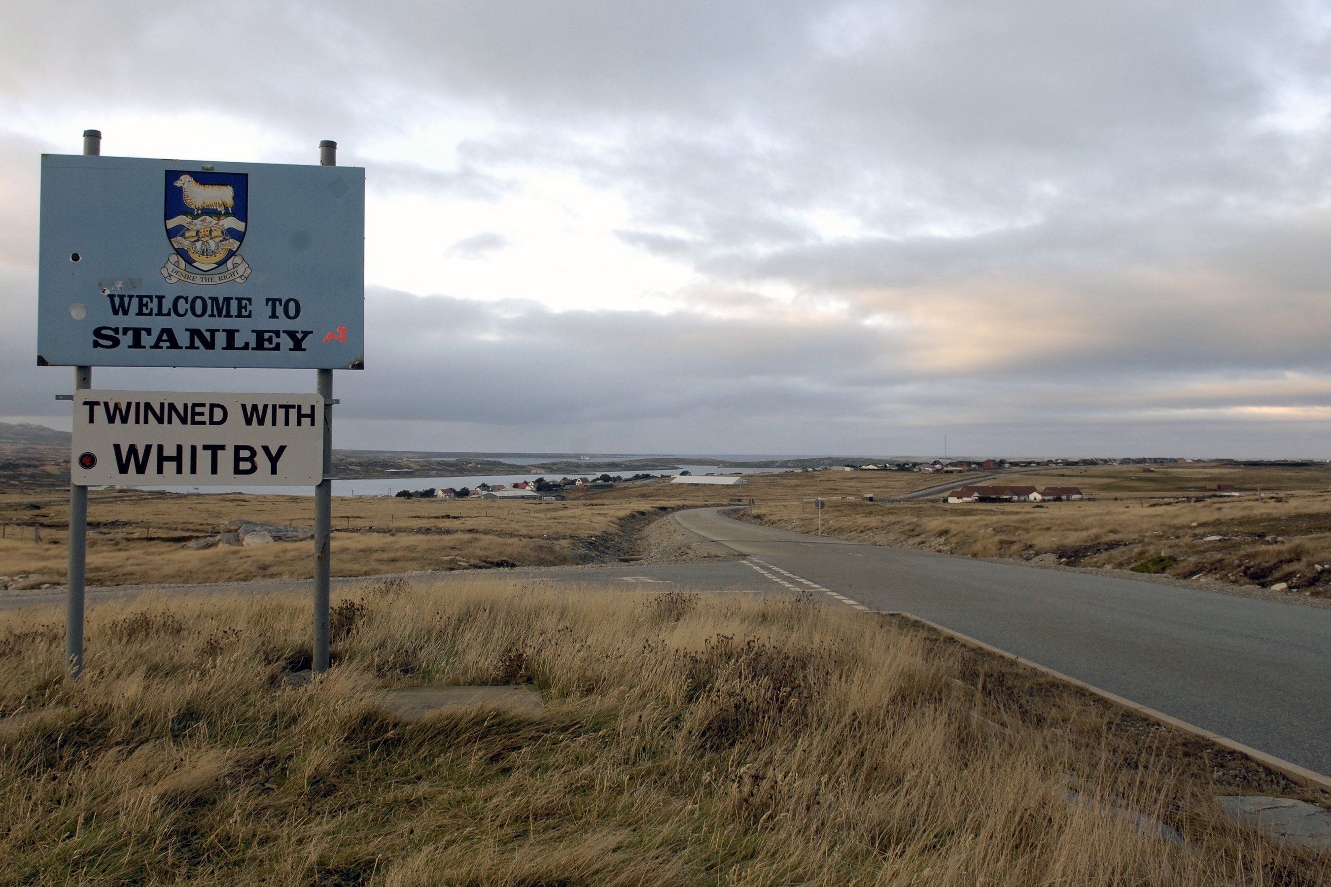 The sign on the approach to Stanley (Port Stanley) from the west.